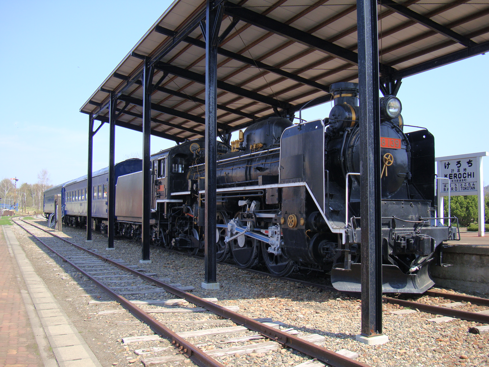 Kerochi Railway Park, formerly kerochi Station on Yumo Line